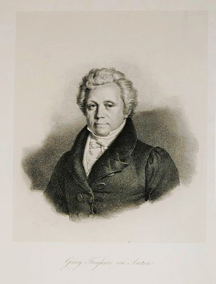 Johann Georg von Aretin (1770-1845), bayerischer Beamter